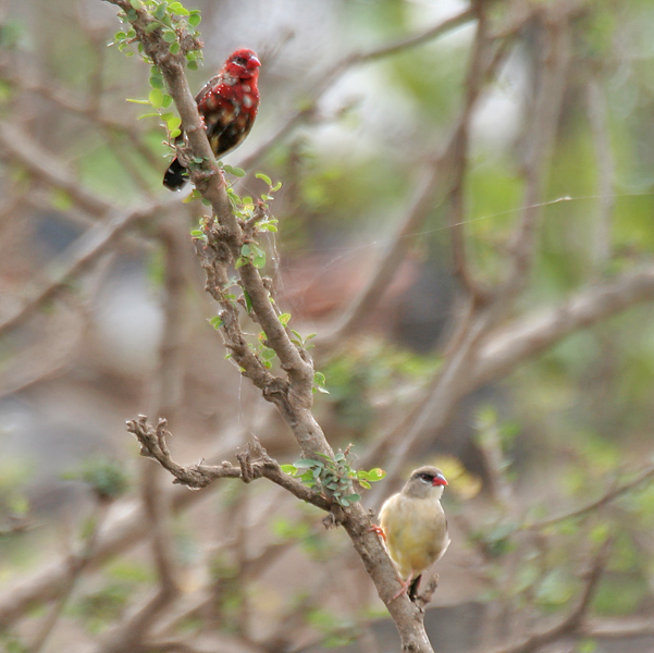 Red Munia, Red Avadavat or Strawberry Finch Amandava amandava- Hindi: Laal munia, Guj: Surakh, Laal muniya , Laal tapu shiyu, Mar: Laal munia, Pun: Laal munia, Surkhan, Te: Torra-jinuwayi, Yerra jinuwayi, Mal: Chuvanna moonia, Kan: Kempu munia- at Pocharam lake, Andhra Pradesh, India.